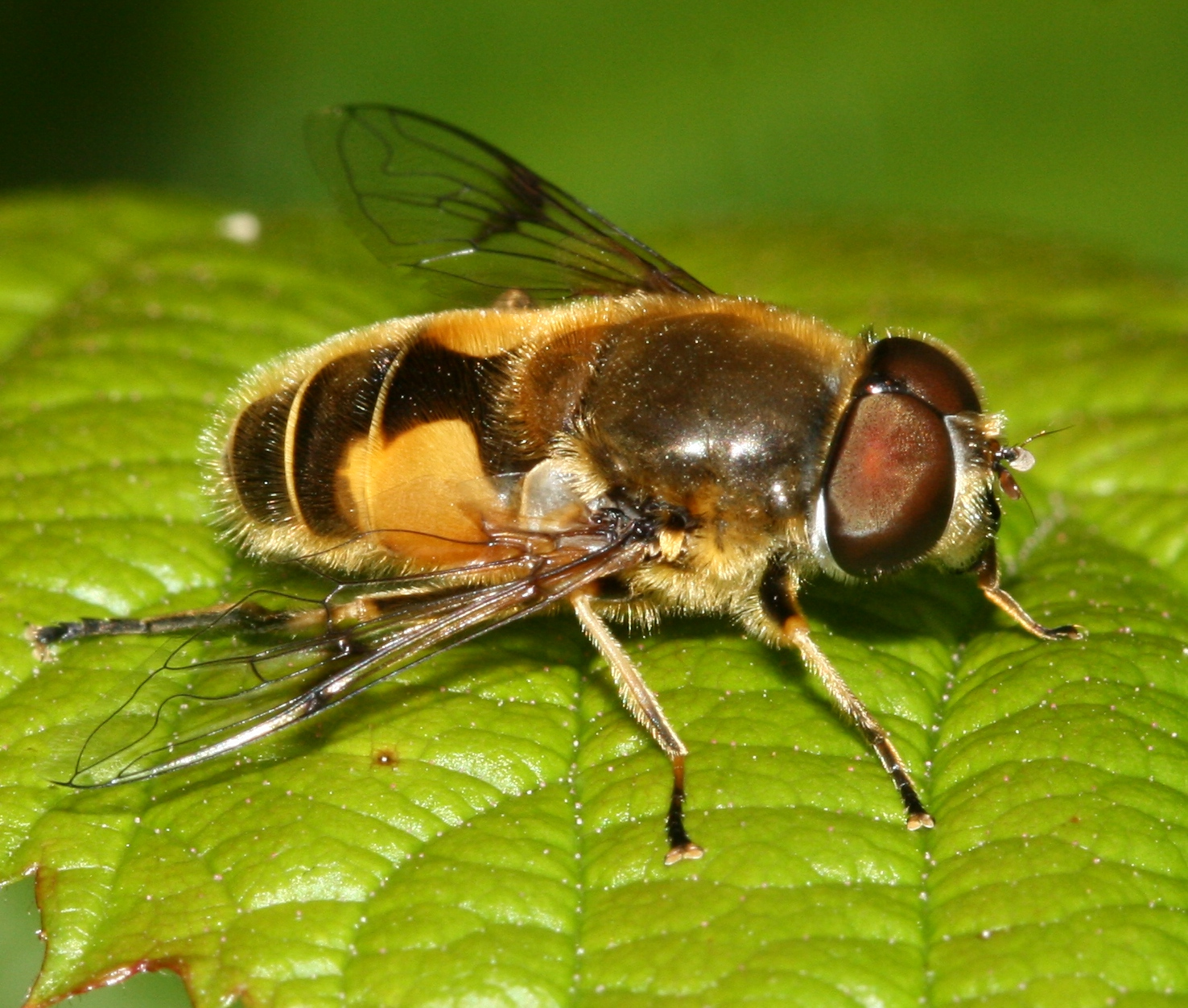 a female Eristalis horticola